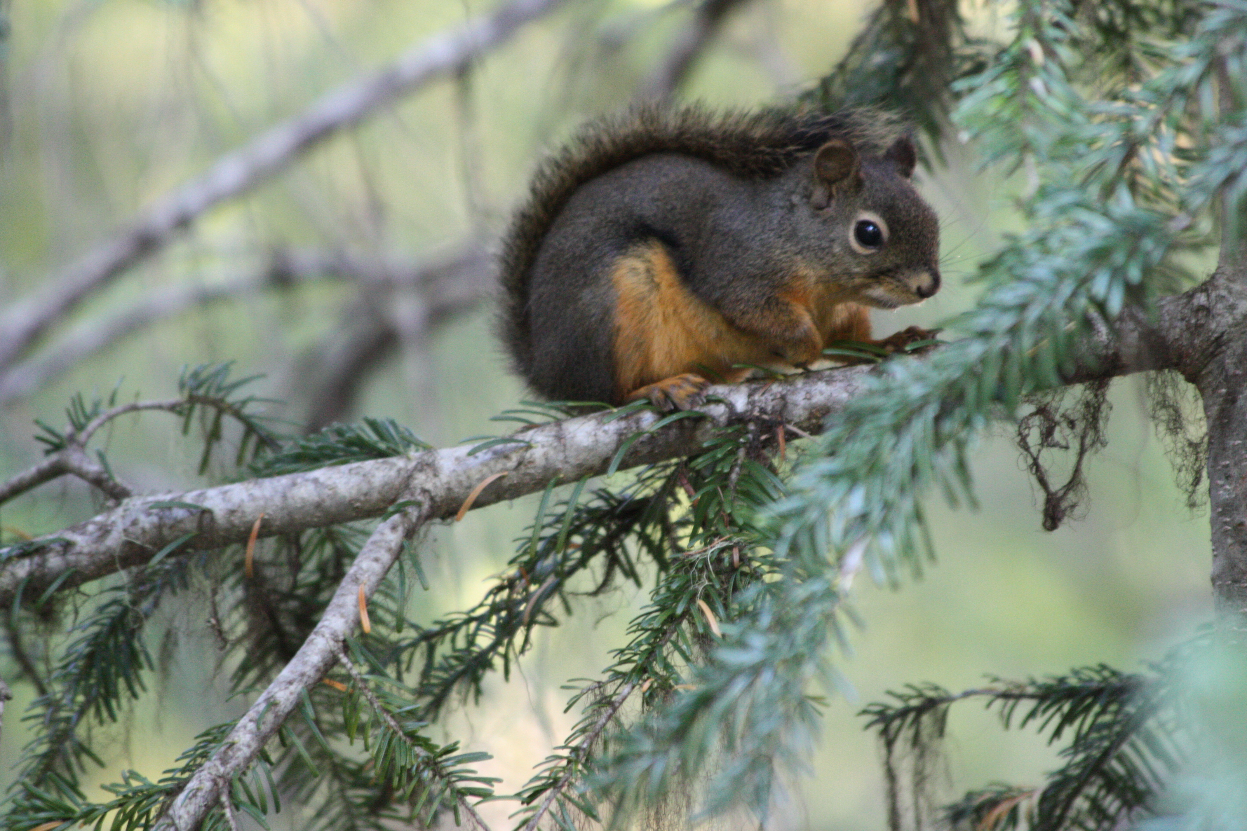 Douglas Squirrel on a Pacific Silver Fir (Abies amabilis) branch